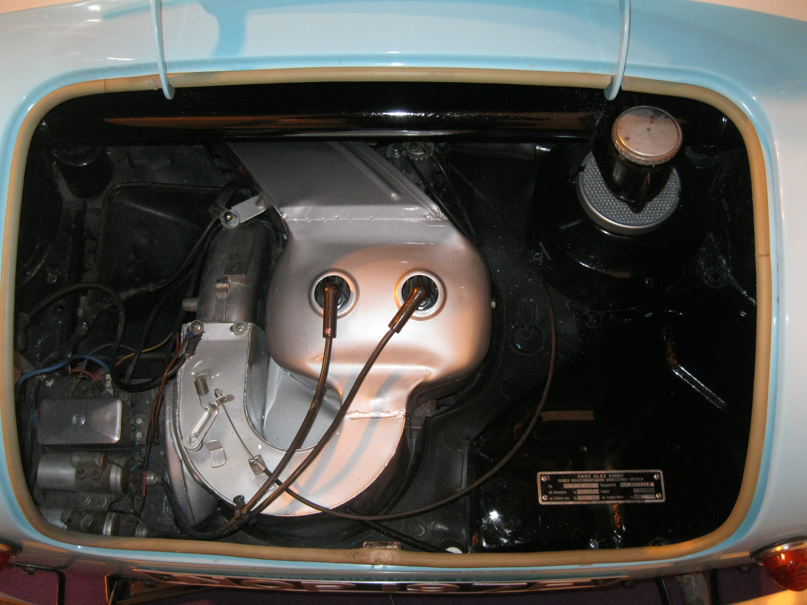 Exhibited at the NEC Birmingham Classic Car Show, November 15-17, 2013